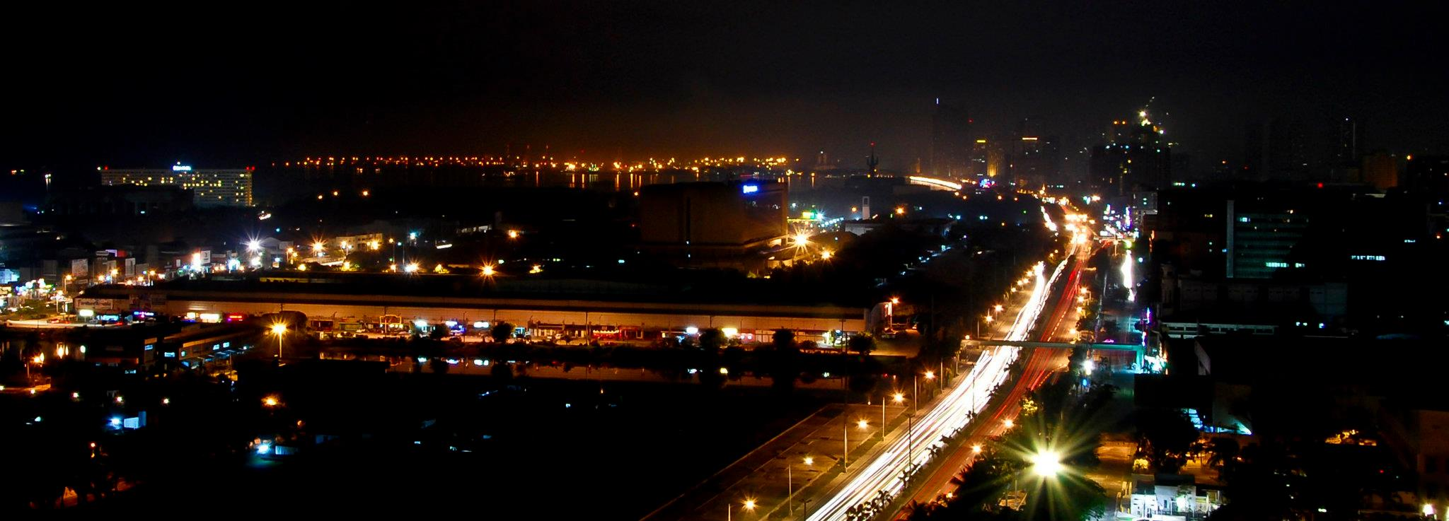 Evening shot of Roxas Boulevard near Embassy of Japan in Pasay City.